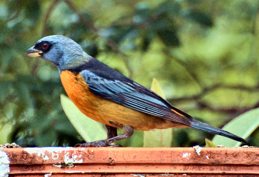 Blue-and-yellow Tanager (Thraupis bonariensis) in Piraju, São Paulo state, Brazil.